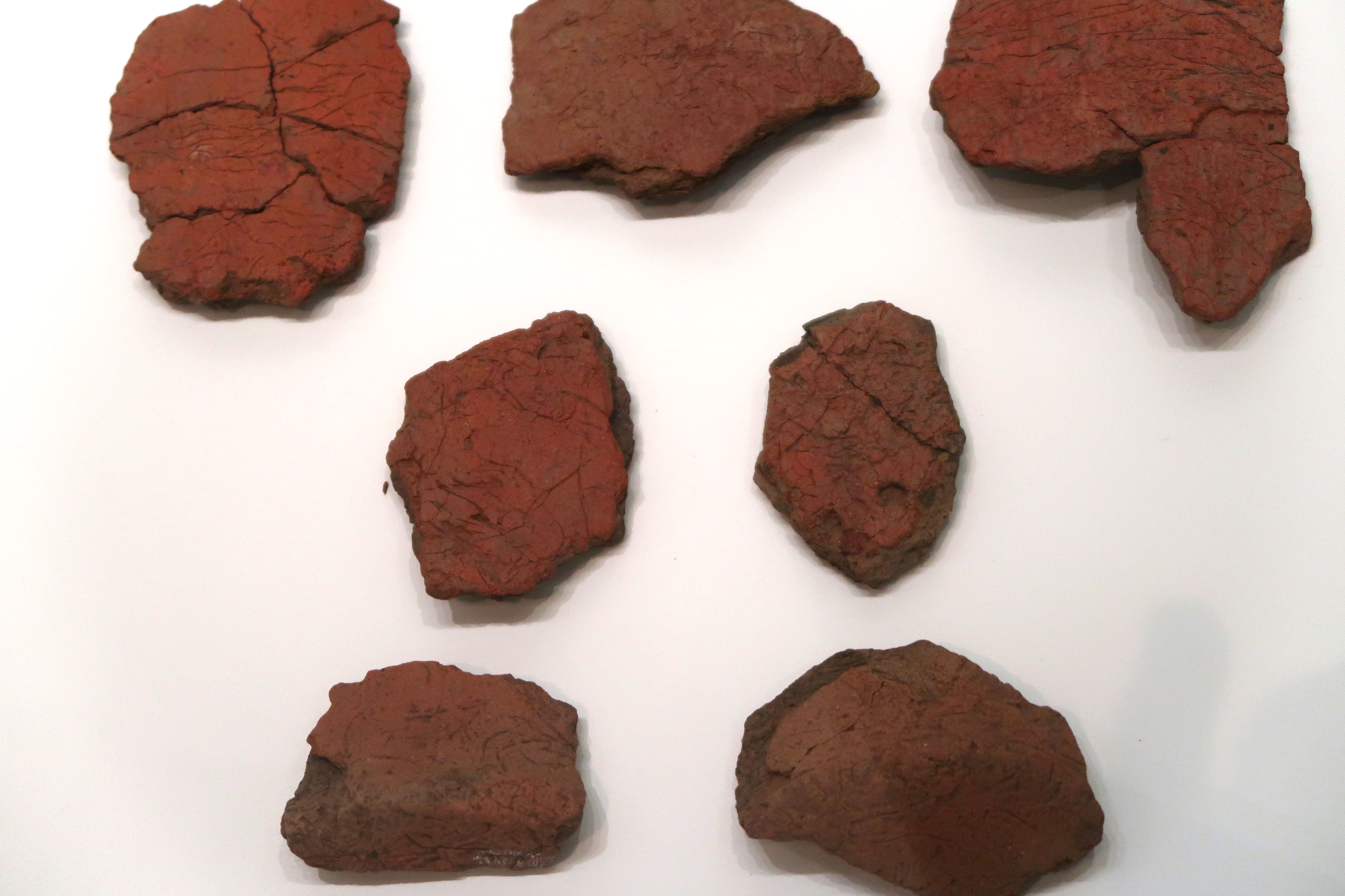 Gosan-ri type potteries. Gangjeong-dong. 2008 excavation. National Museum of Korea